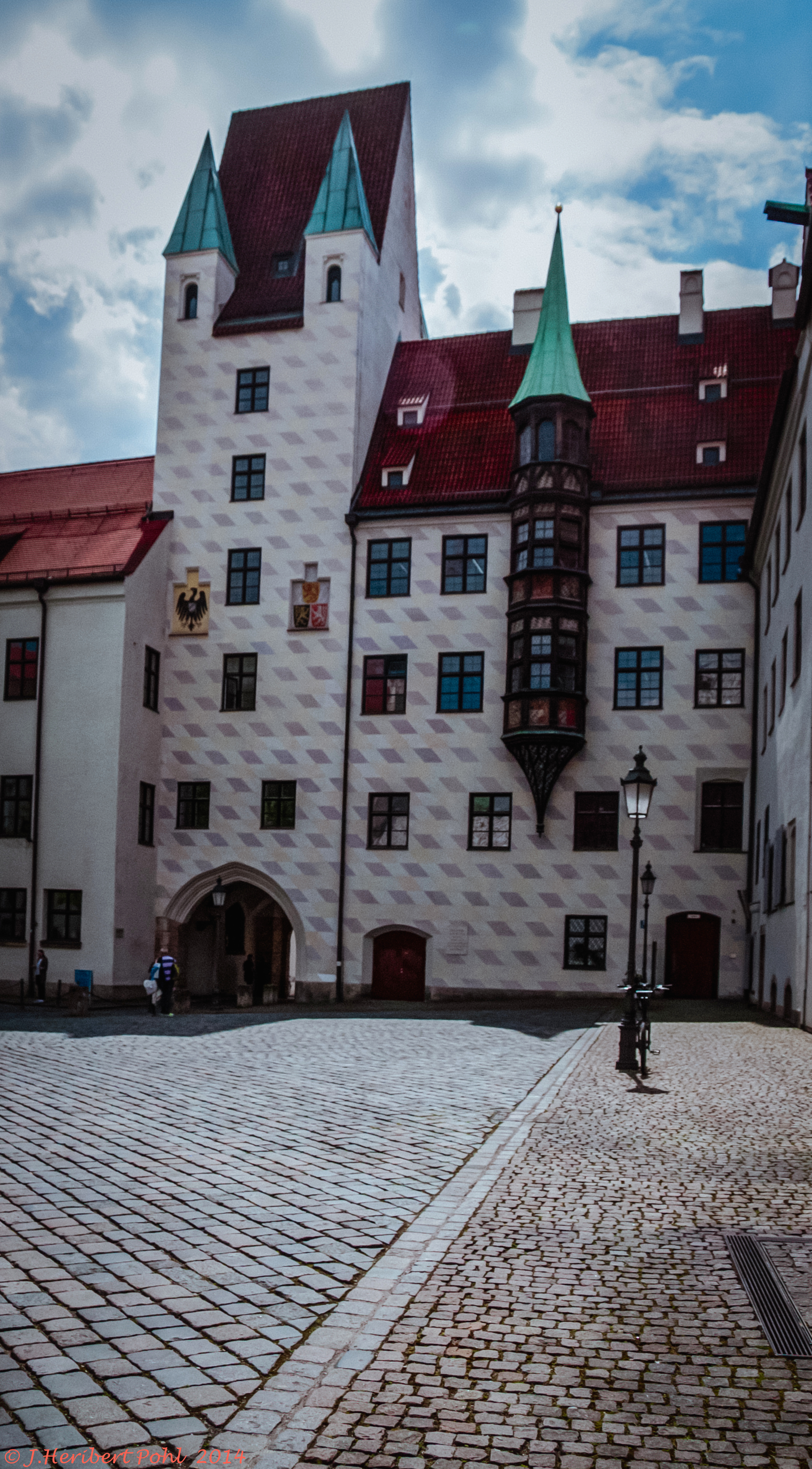 Die älteste Residenz der Wittelsbacher auf Münchner Stadtgebiet( etwa Mitte 13 Jhd). Der im Bild sichtbare Turm und Erker sind spätgotisch und stammen aus der Zeit um 1460. Der Alte Hof gehört zum Geschützten Kulturgut der Haager Konvention. The oldest residence of Wittelbacher to Munich city area (about mid 13 century). The tower visible in the picture and bay windows are late Gothic and date from around 1460th The Alter Hof is the protected cultural heritage of the Hague Convention.